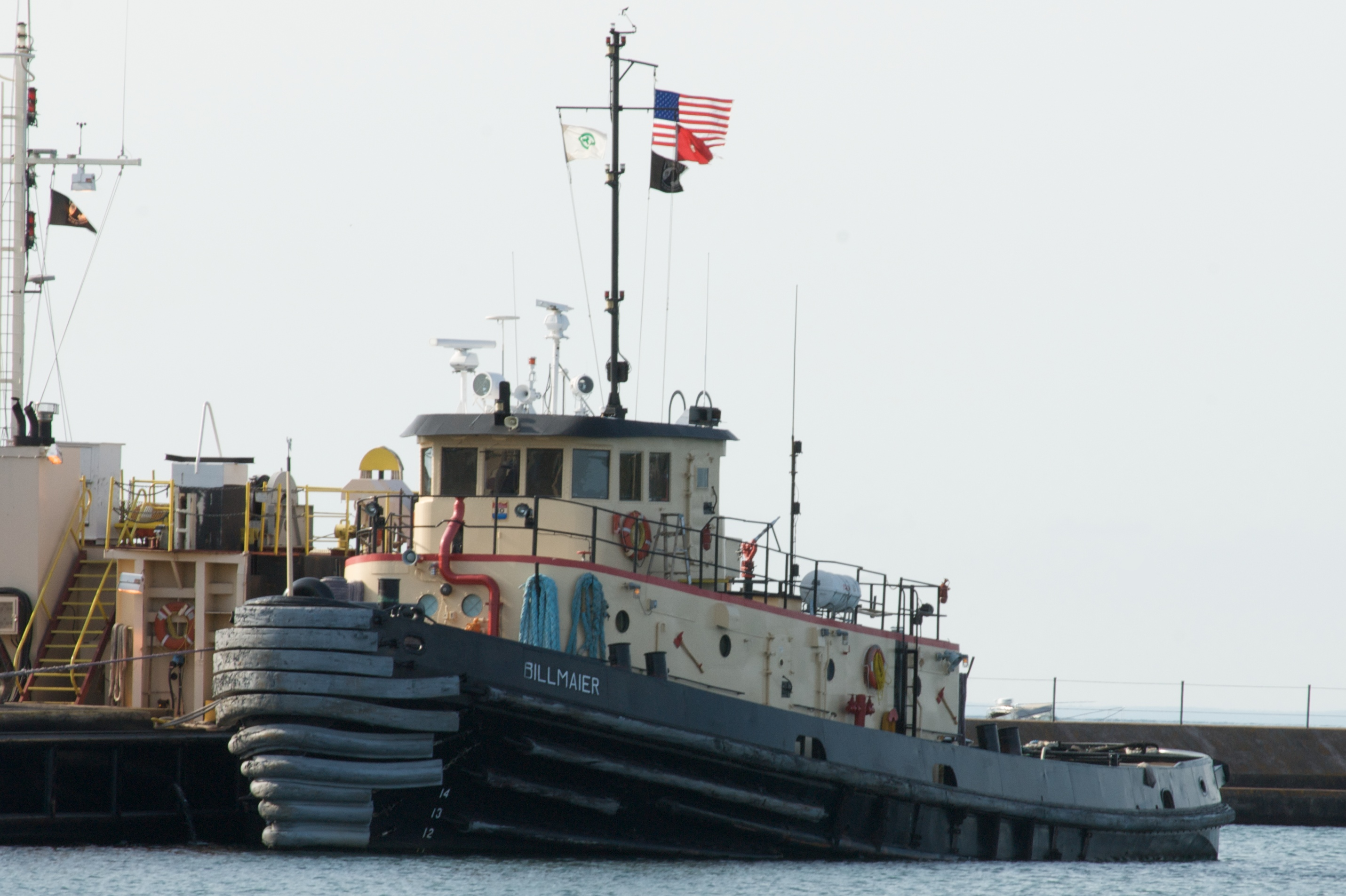 The US Army Corps of Engineers tug boat Billmaier and the Crane Barge H. J. Schwartz were tied to the breakwater in Two Harbors, MN when I visited. They were planning to be therefor a few days to do some repair work to the stone at the base of the breakwater. The tug was originally YTB 799, the USS Natchitoches. I love the abbreviation YTB. It stands for "Yard Tug - Big". It was delivered to the US Navy in May of 1969. In 2001 it was decommissioned from the Navy and transferred to the US Army Corps of Engineers. It is currently based in Duluth, MN and travels the Great Lakes, towing a crane barge.